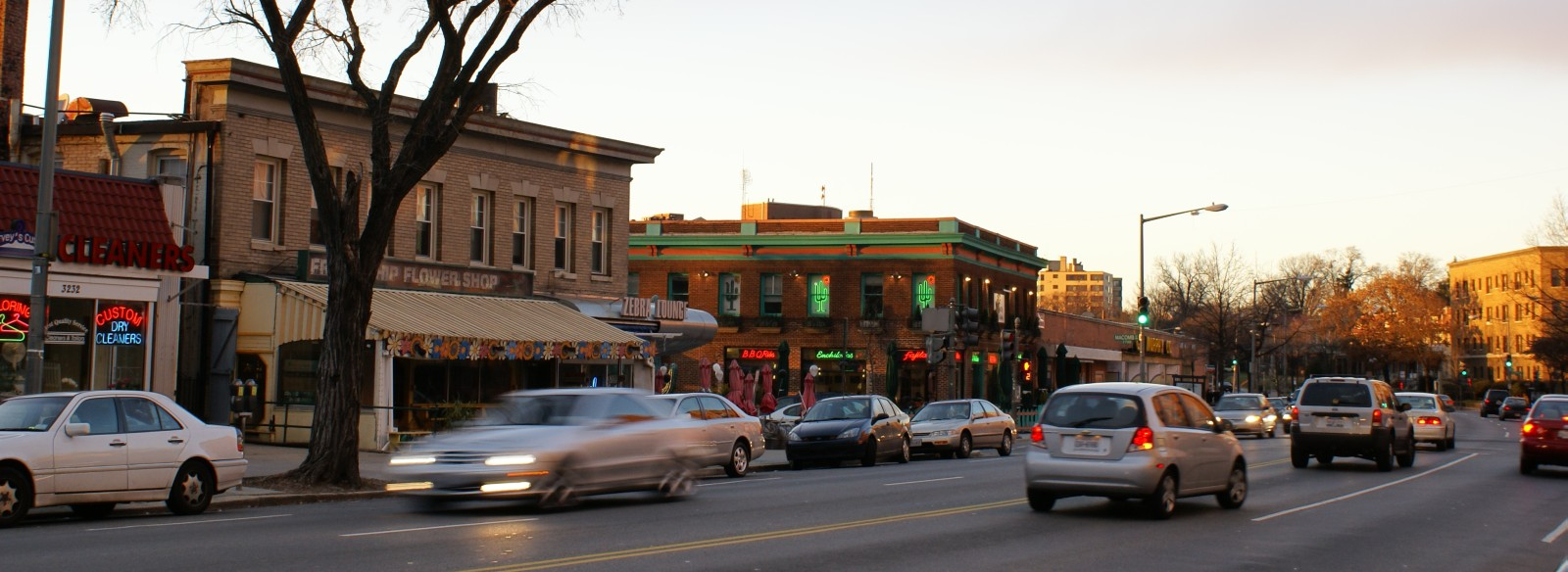 Wisconsin Ave in Cathedral Heights, several blocks north of the Washington National Cathedral